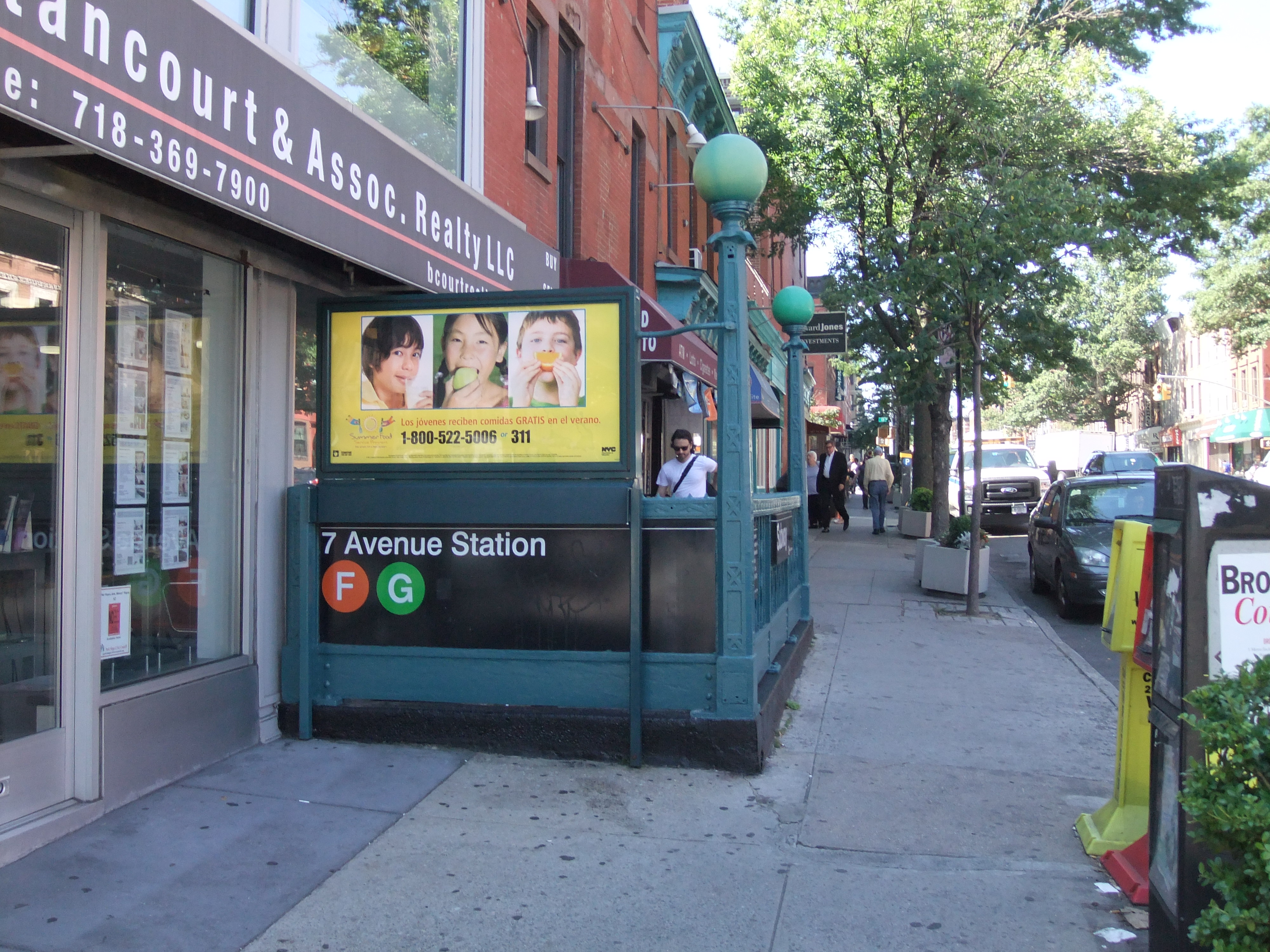 Stairs to the 7th Ave-Park Slope IND station